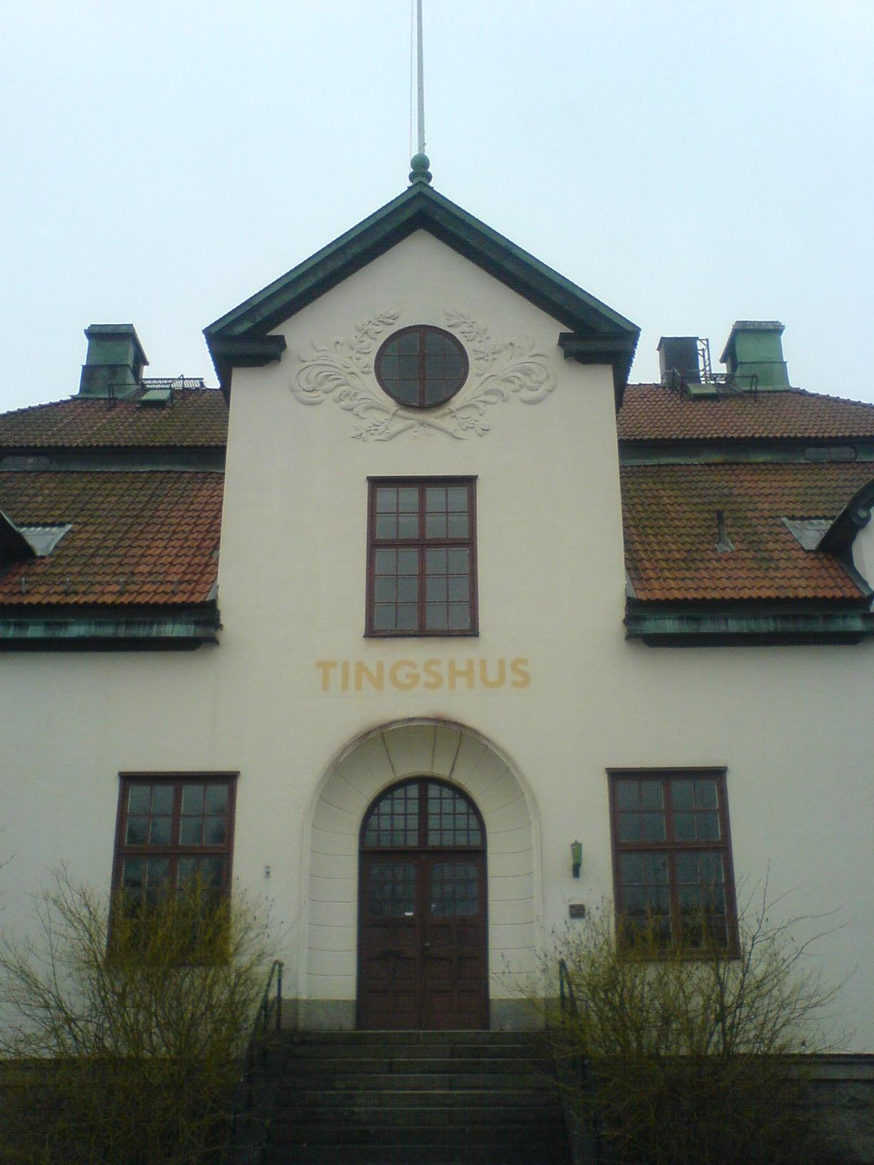 Hedemora gamla tingshus (Hedemora old district court building), Hedemora, Sweden